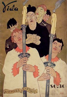 Illustration by Santiago Martinez of the revista vida